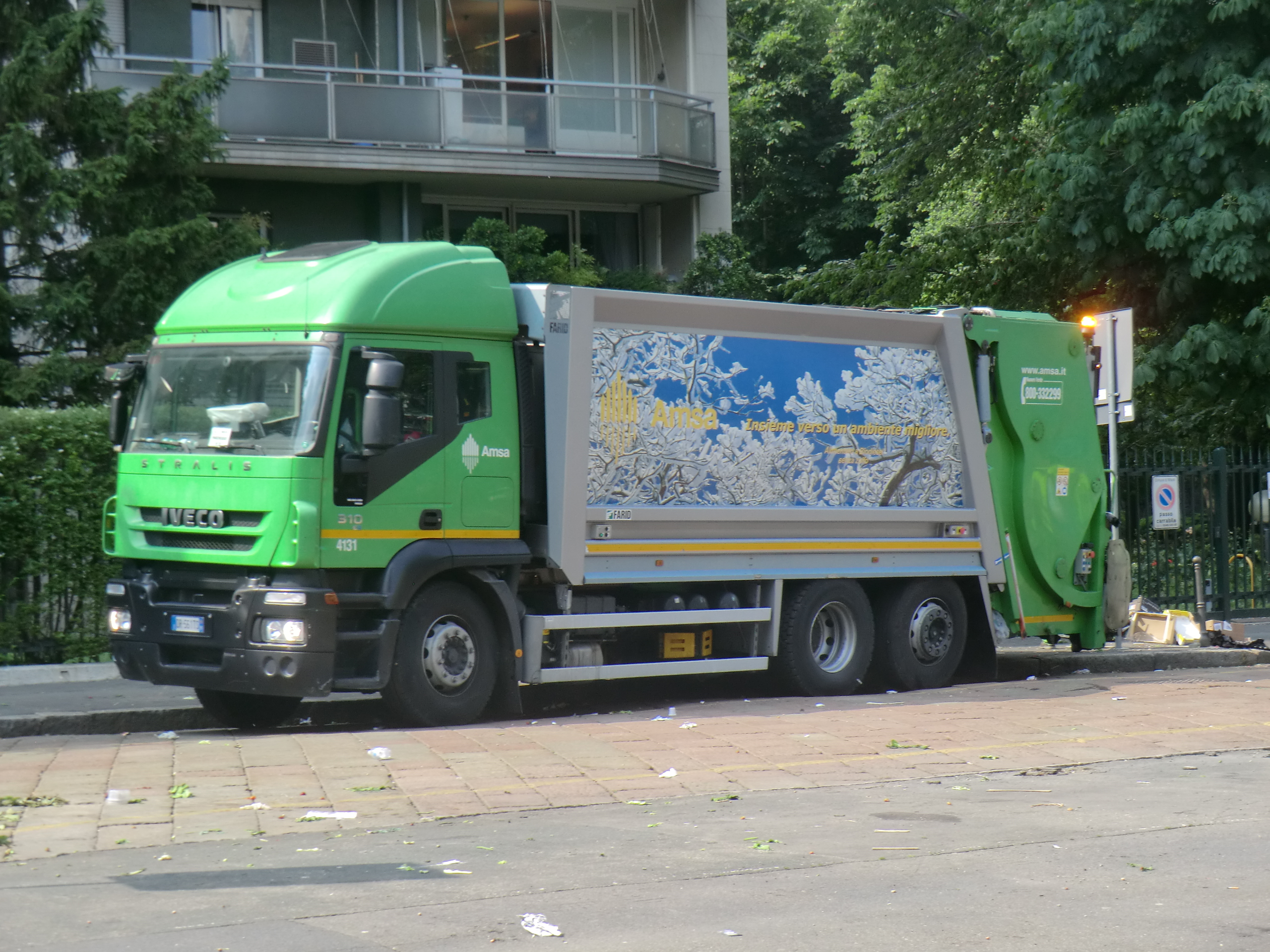 AMSA Milano truck for trash collection.